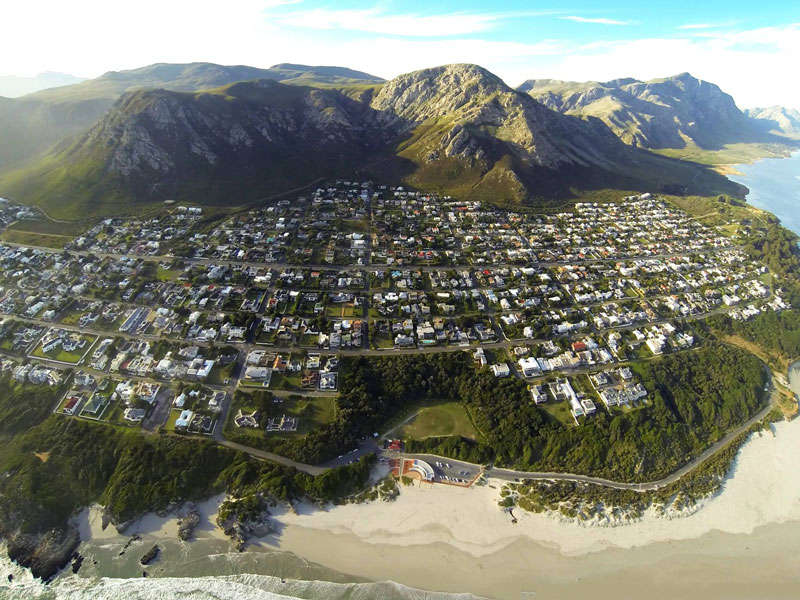 the suburb of Voelkip in the background and Grotto Beach